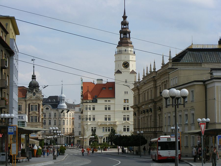 Opava - main city